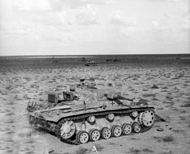 Damaged German Panzer IIIs in the "Valley of Death" near Belhamed, Libya, during "Operation Crusader".